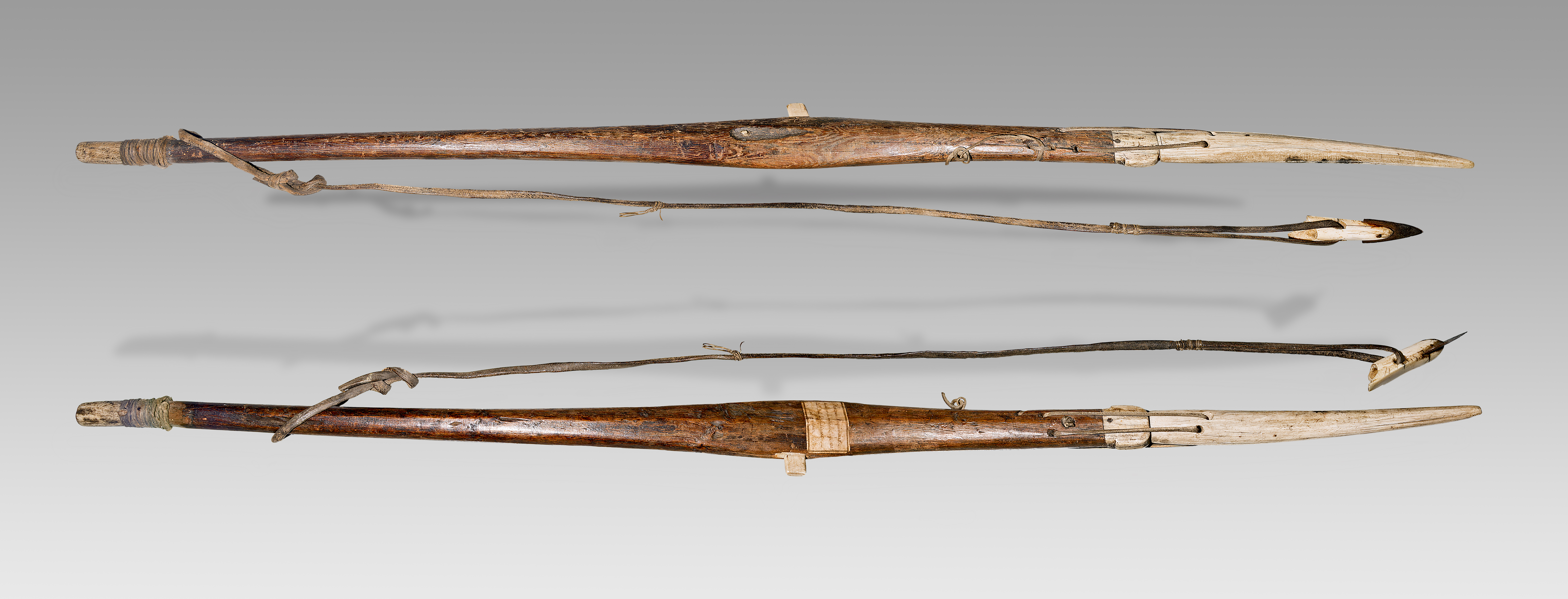 Harpoon called unaaq in the Inuktitut language. Traditional throwing weapon in the Inuit culture; found from Greenland to Alaska. Description: Originally a float (avataq) was at the end of the leather line, which held the head of the spear whose tip is metal. A wooden propeller was associated with this type of weapon she could have a reach of 9 meters. Two views of the same object. Population : Labrador : Canada Collector and collection : gift - Maurice Gennevaux 1911 Materials: Wood, bone, metal, leather. Size : 172 x 9 x 6 cm